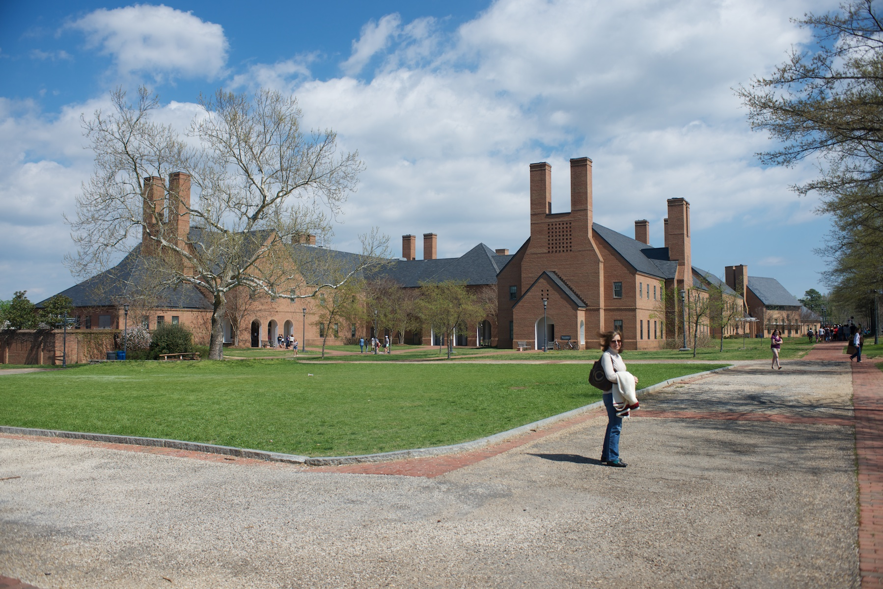 Goodpaster and Schafer Halls on the campus of St. Mary's College of Maryland. They are named, respectively, after General Alan Goodpaster, the former Superintendent of the West Point Military Academy and William Donald Schafer, the former Governor of Maryland. Both men were very involved in the ongoing development of St. Mary's College of Maryland and each served on it's Board of Trustees for years. Photo by Steve Pribut